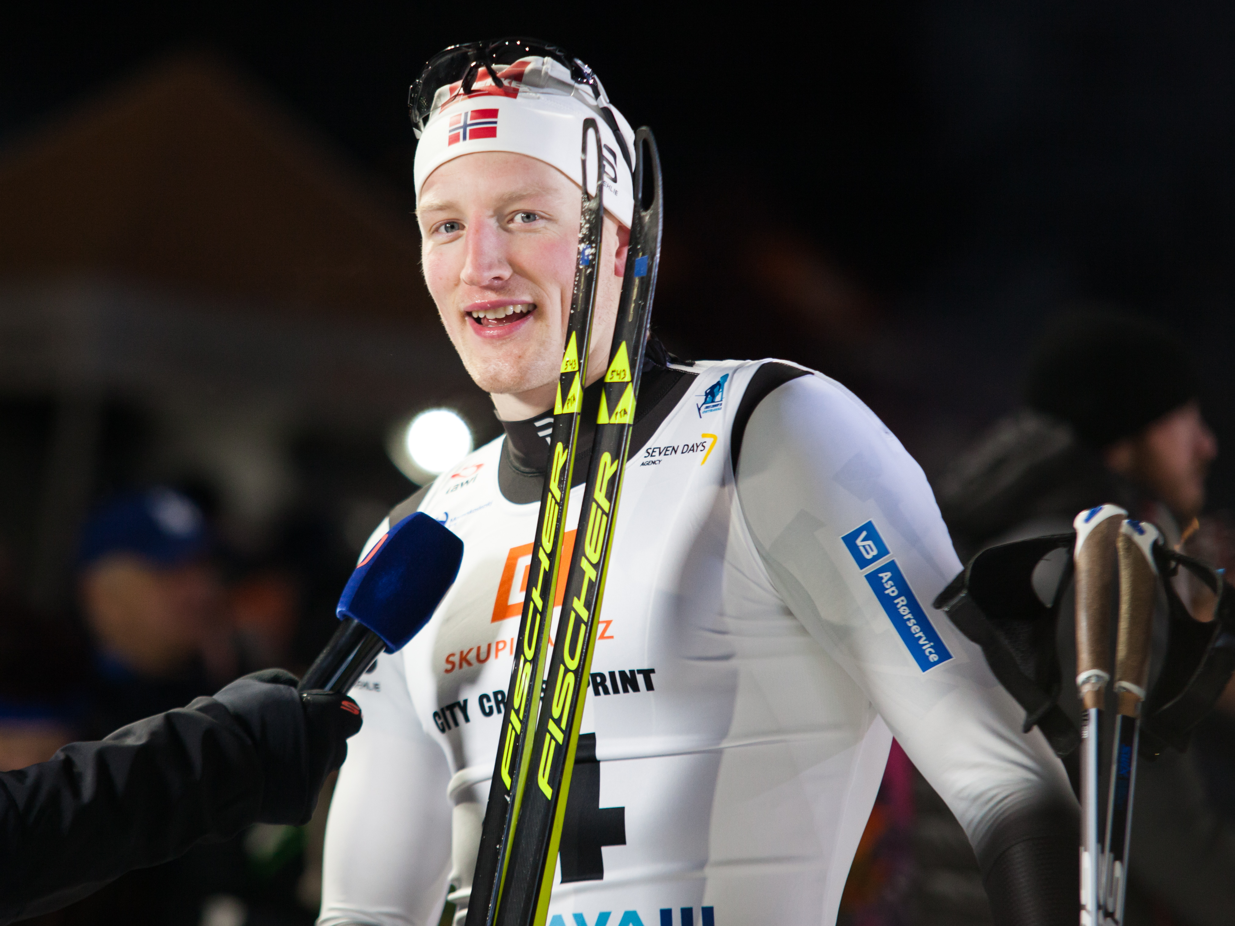 Paal Troean Aune on cross-country race ČEZ City Cross Sprint 2019